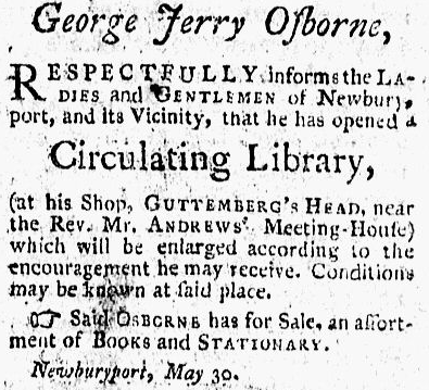 Ad for Osborne's circulating library, "at his shop, Guttemberg's Head," Newburyport, Massachusetts